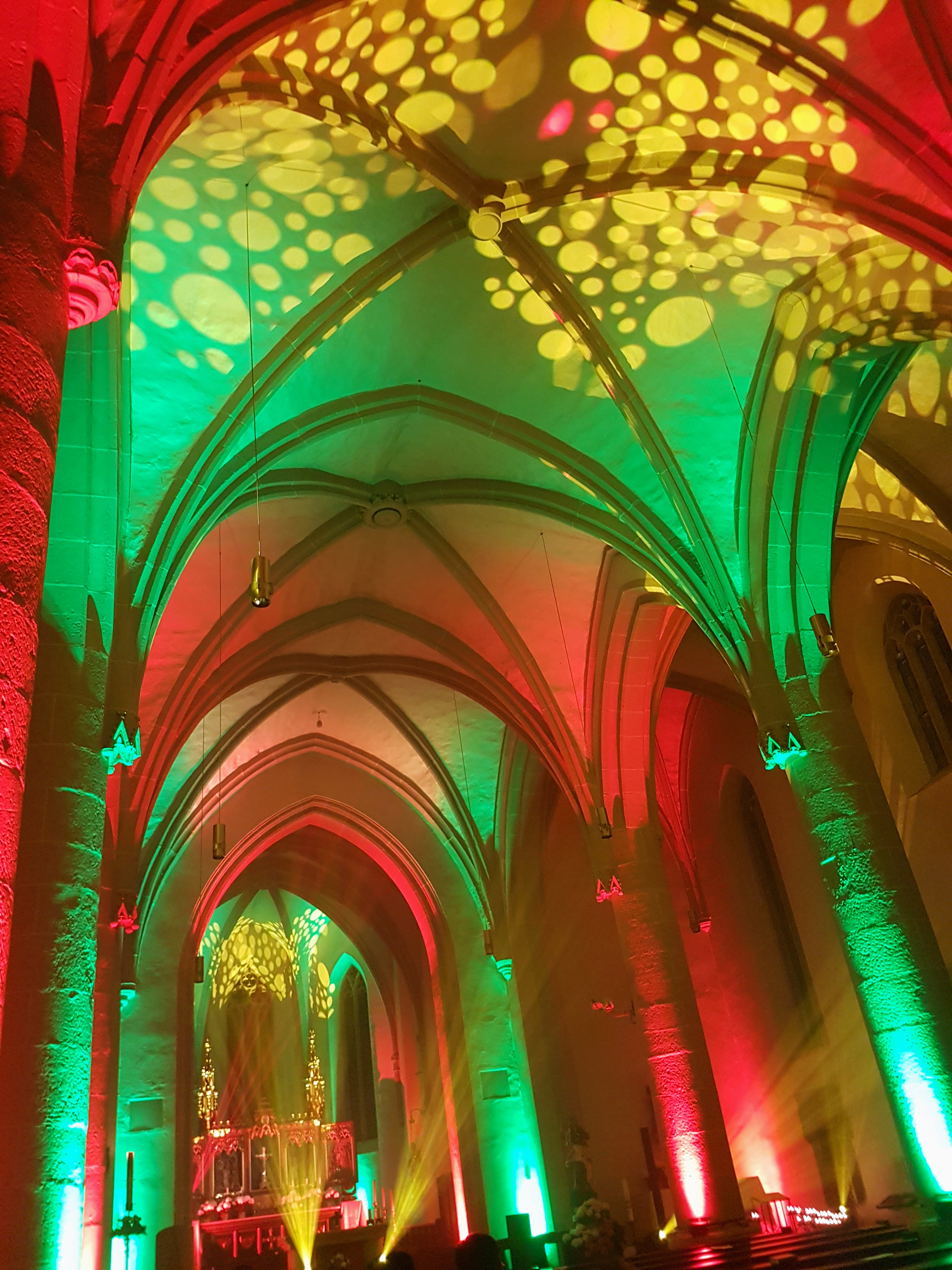 Once a year the Kronach old town is illuminated by different artists for ten days. There is a social program with gastronomy and music. In the parish church of St. .